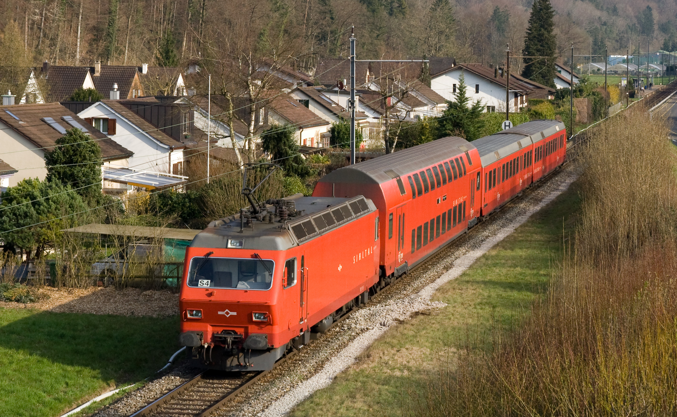 SZU push-pull train near Wildpark Höfli. The locomotive is an Re 456 "KTU Lok".